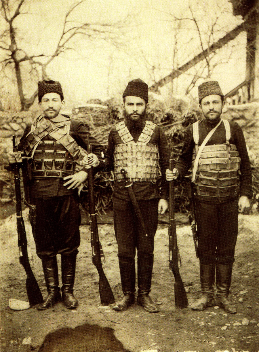 Armenian village guards from Nagorno Karabakh (1918-1921)